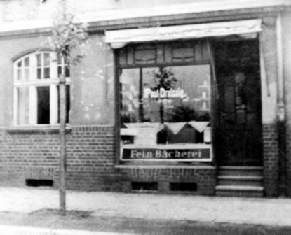 first business